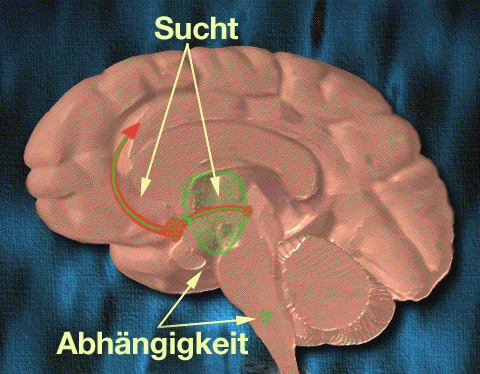 Source: The National Institute on Drug Abuse, part of the National Institutes of Health (NIH), which is part of the U.S. Department of Health and Human Services. Image taken from Teaching Packets: The Neurobiology of Drug Addiction